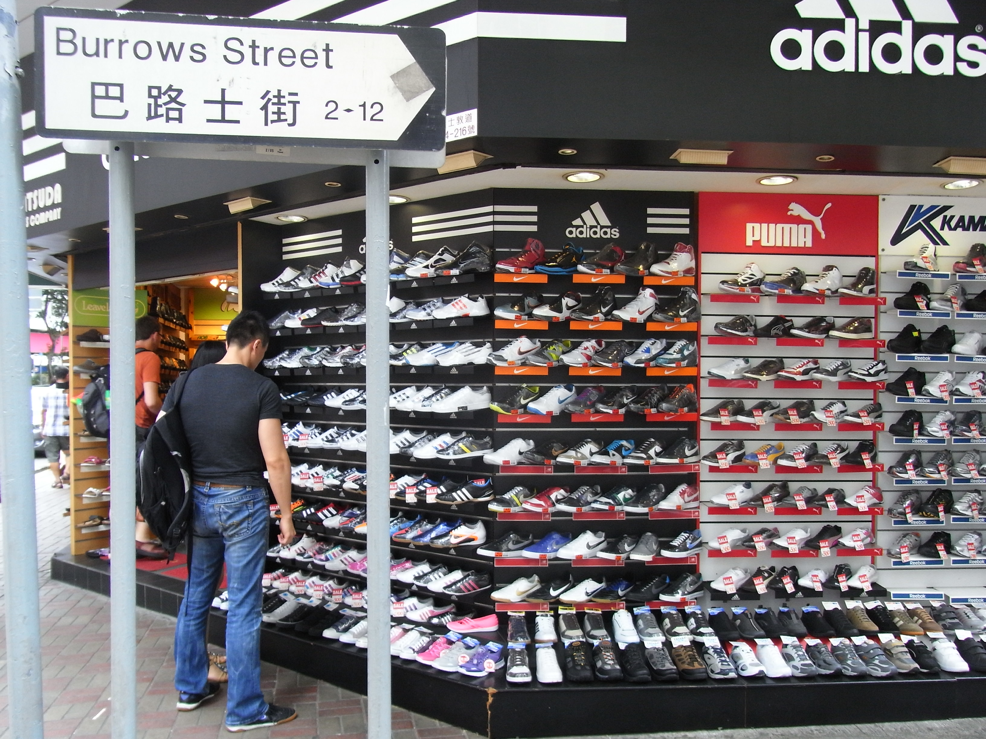 灣仔 Wan Chai in May-2012